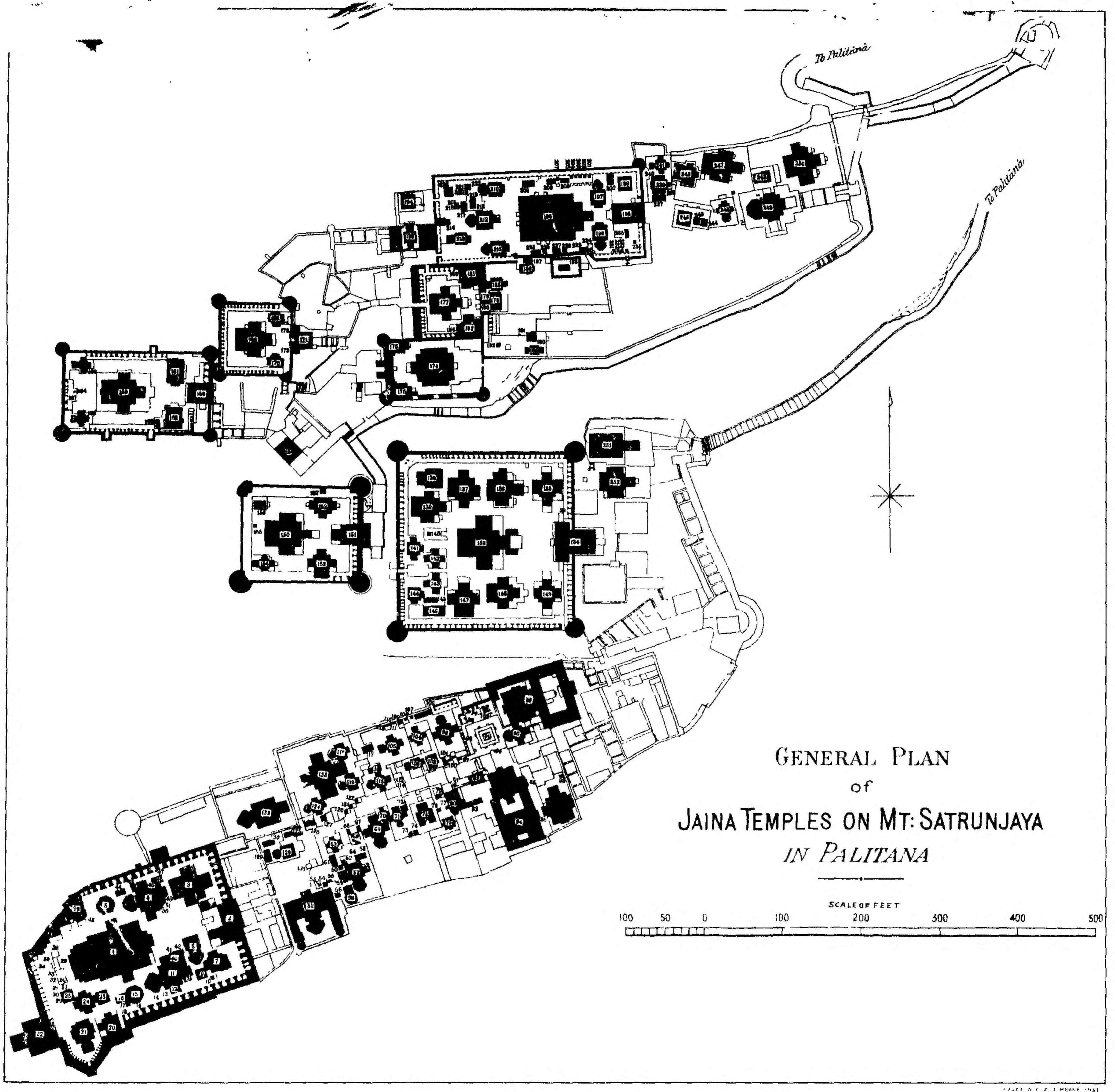 General Plan of Jain temples on Mount Shatrunjaya, Palitana, Gujarat, India